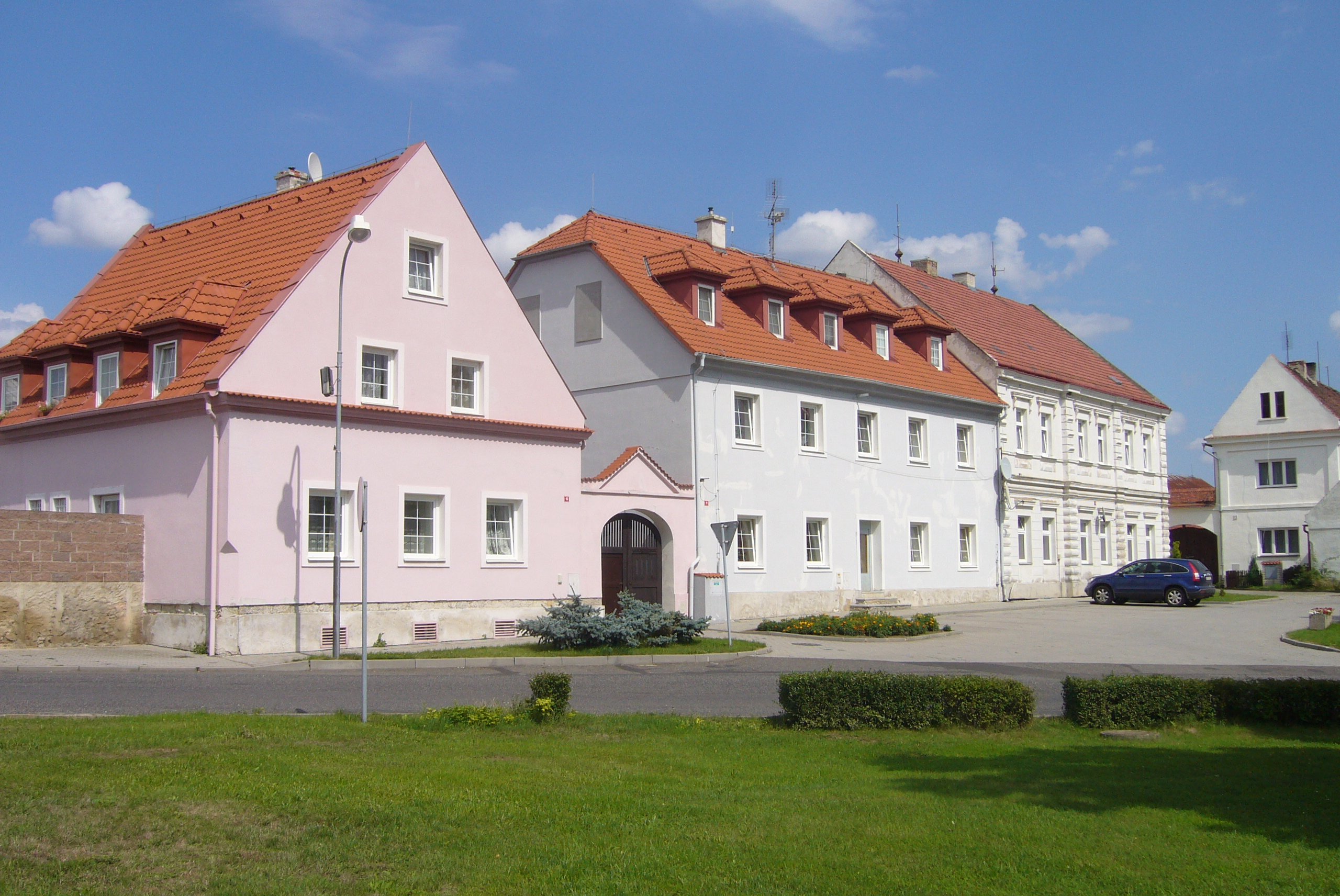 ouses in the village Hrušovany